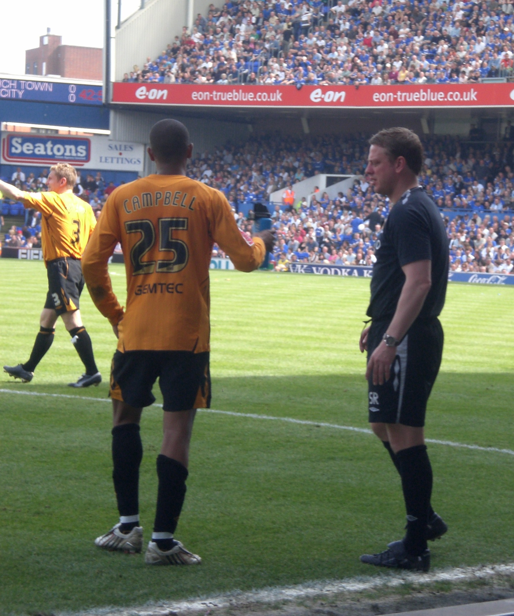 Fraizer Campbell playing for Hull City in a match versus Ipswich Town, 4th May 2008.